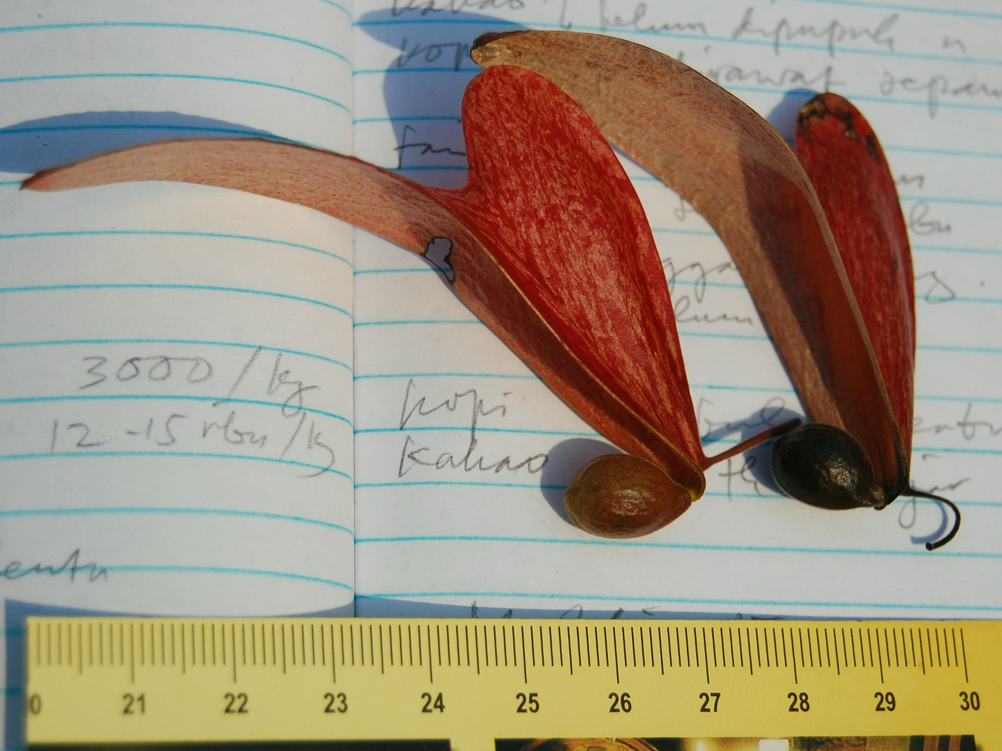 Pterocymbium tinctorium, fallen fruits; from the south-eastern slope of Gunung Betung. Pesawaran Regency, Lampung, Indonesia.